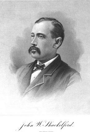 Portrait of United States Congressman John Williams Shackelford, from Onslow County, North Carolina. Portrait from "Memorial Addresses on the Life and Character of John W. Shackelford, a Representative from North Carolina, Delivered in the House of Representatives and in the Senate, Forty-seventh Congress, Second Session," published by Order of Congress, Government Printing Office, Washington, D.C., 1883.